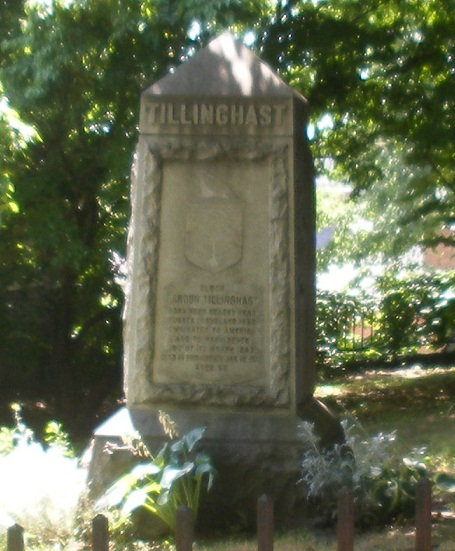 Grave monument for Elder Pardon Tillinghast, pastor of the First Baptist Church in Providence for several decades; cemetery near corner of Benefit and Arnold Streets, Providence, Rhode Island